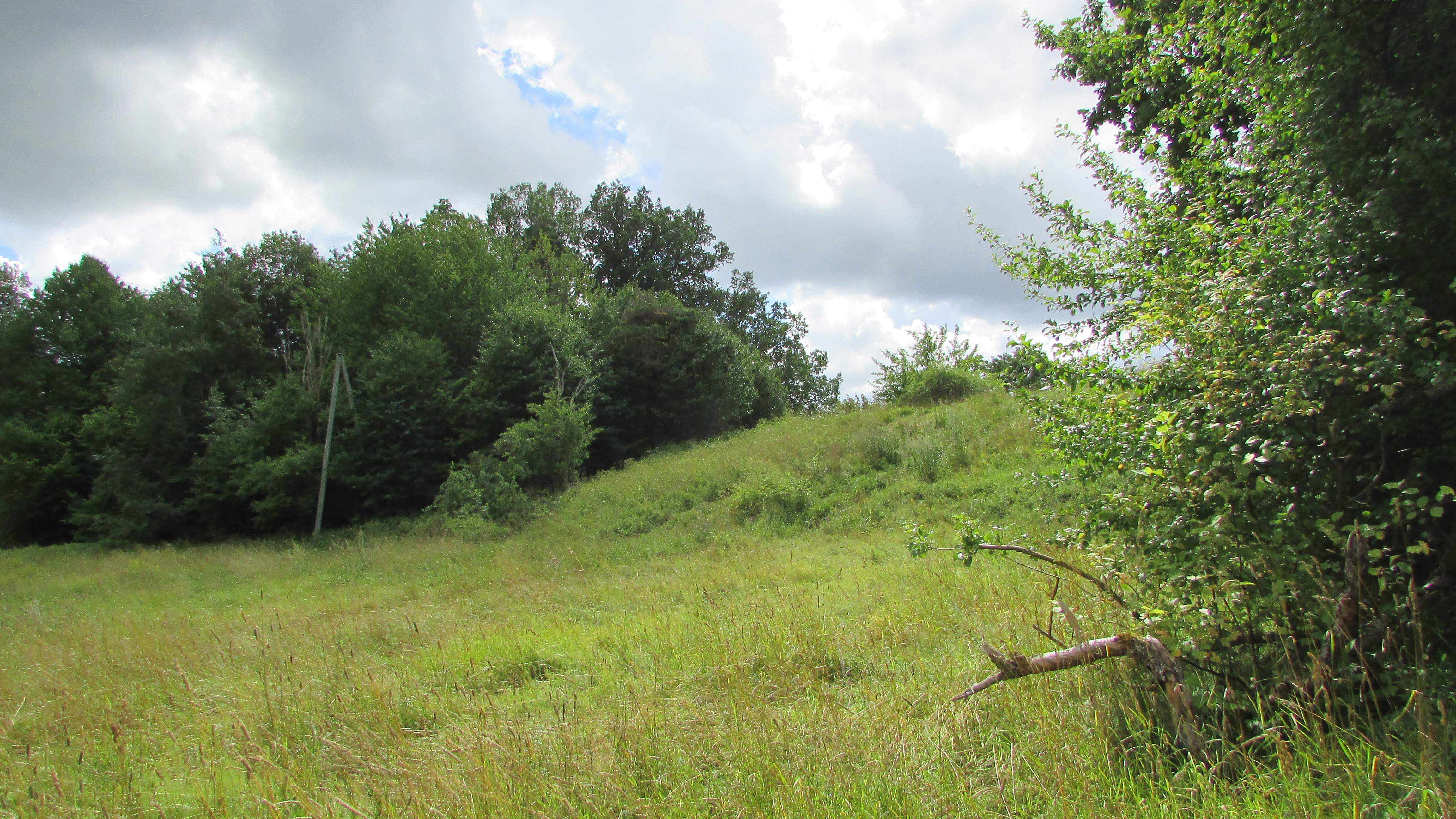 Curonian hillfort of Veckuldiga, now in Kuldiga, Latvia